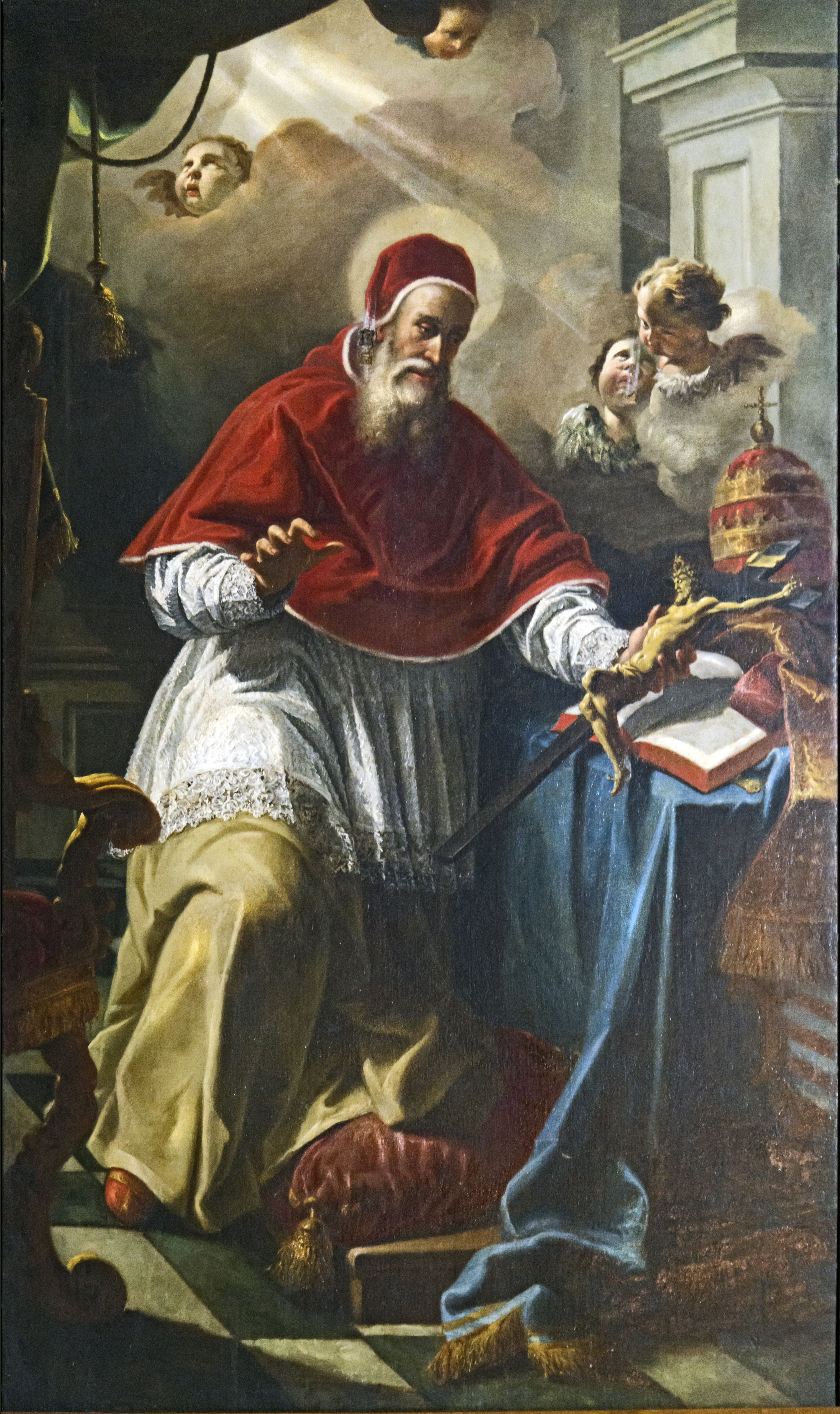 Santi Giovanni e Paolo in Venice. Chapel of Pius V - Table altarpiece Pius V by Bartolomeo Letterini.